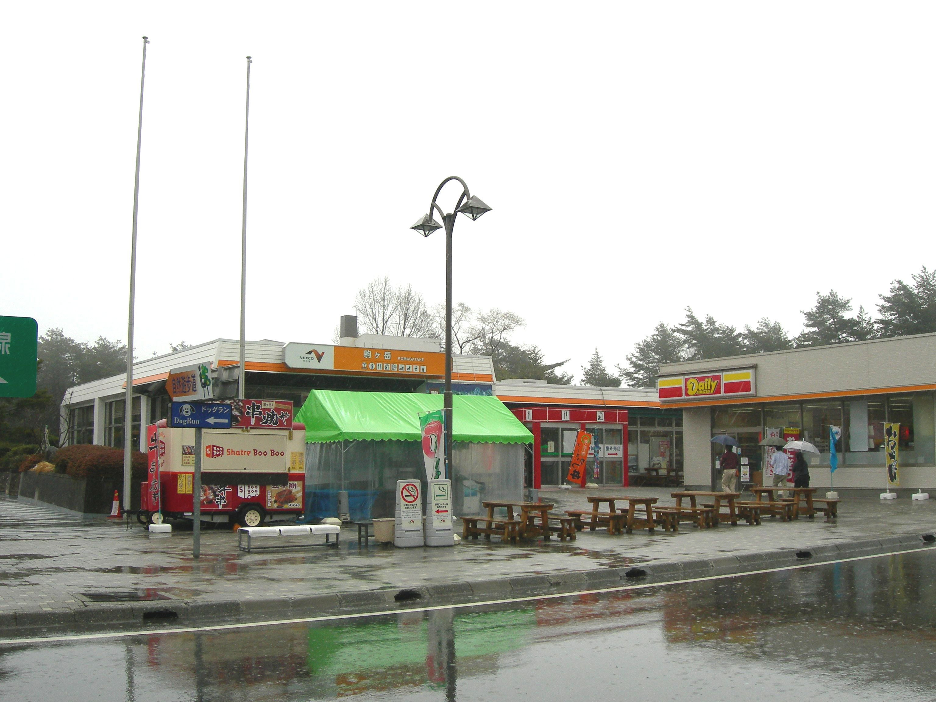 Komagatake Service Area